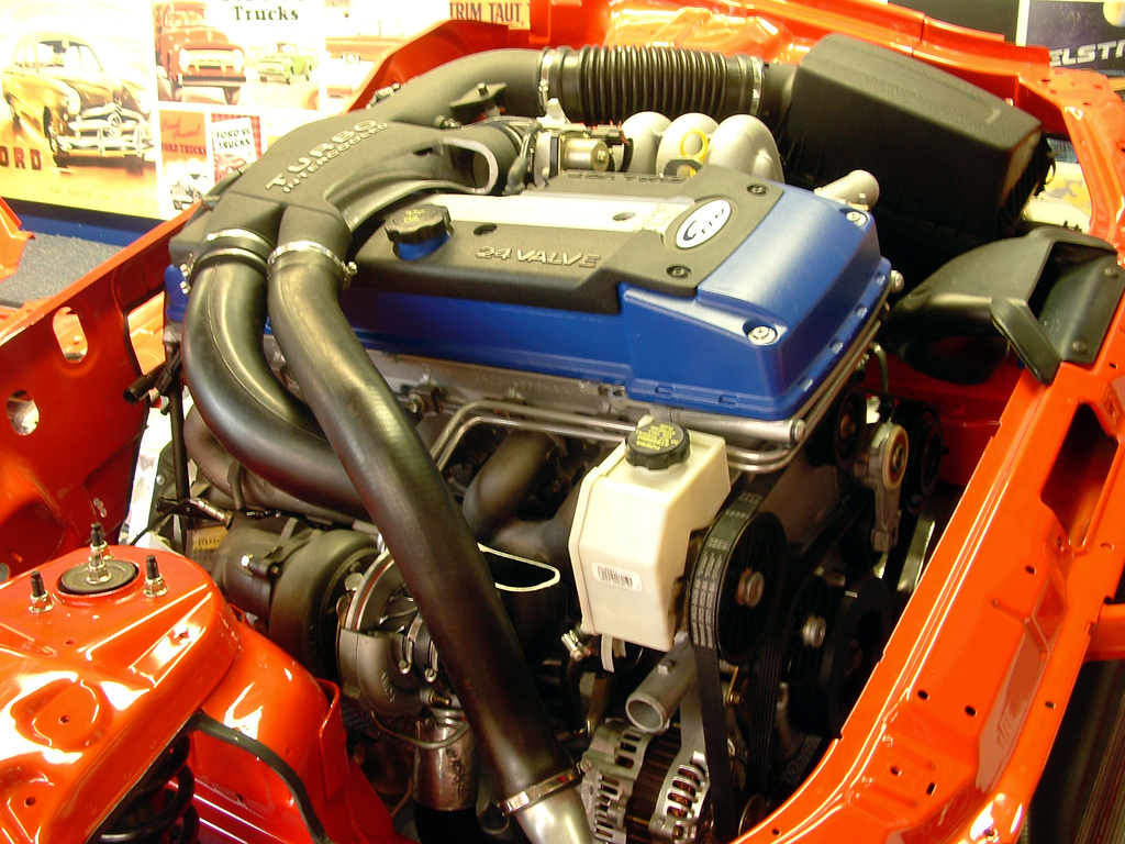 Ford Inline Six Barra 270T Engine in F6 Typhoon